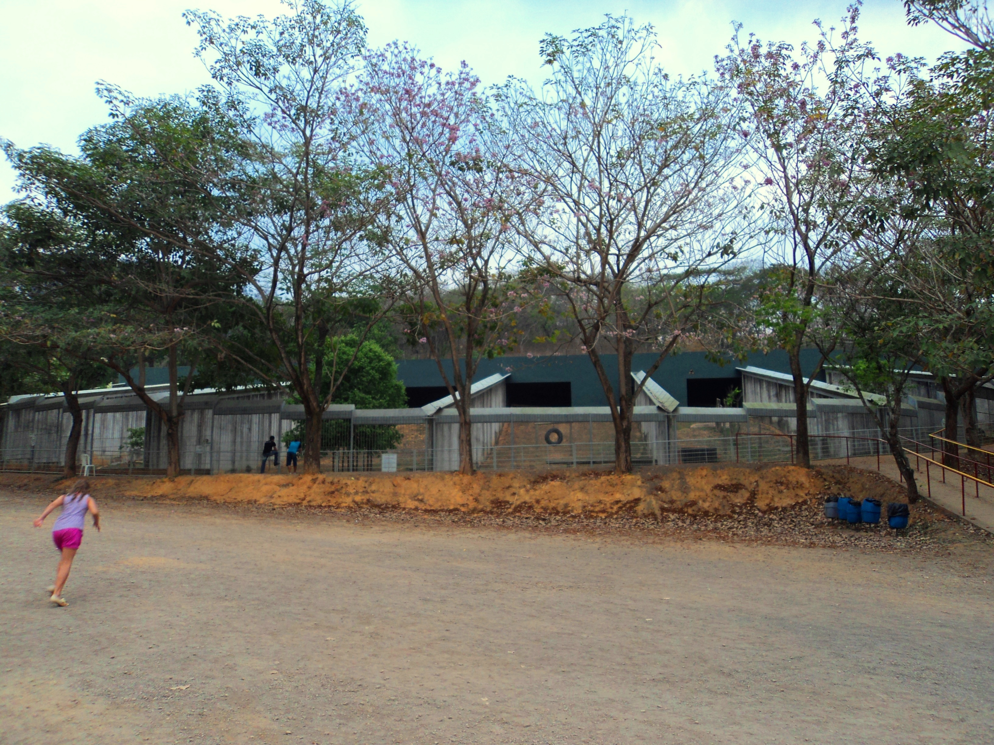 View of the Usipa Zoo, in Ipatinga, Minas Gerais, Brazil.